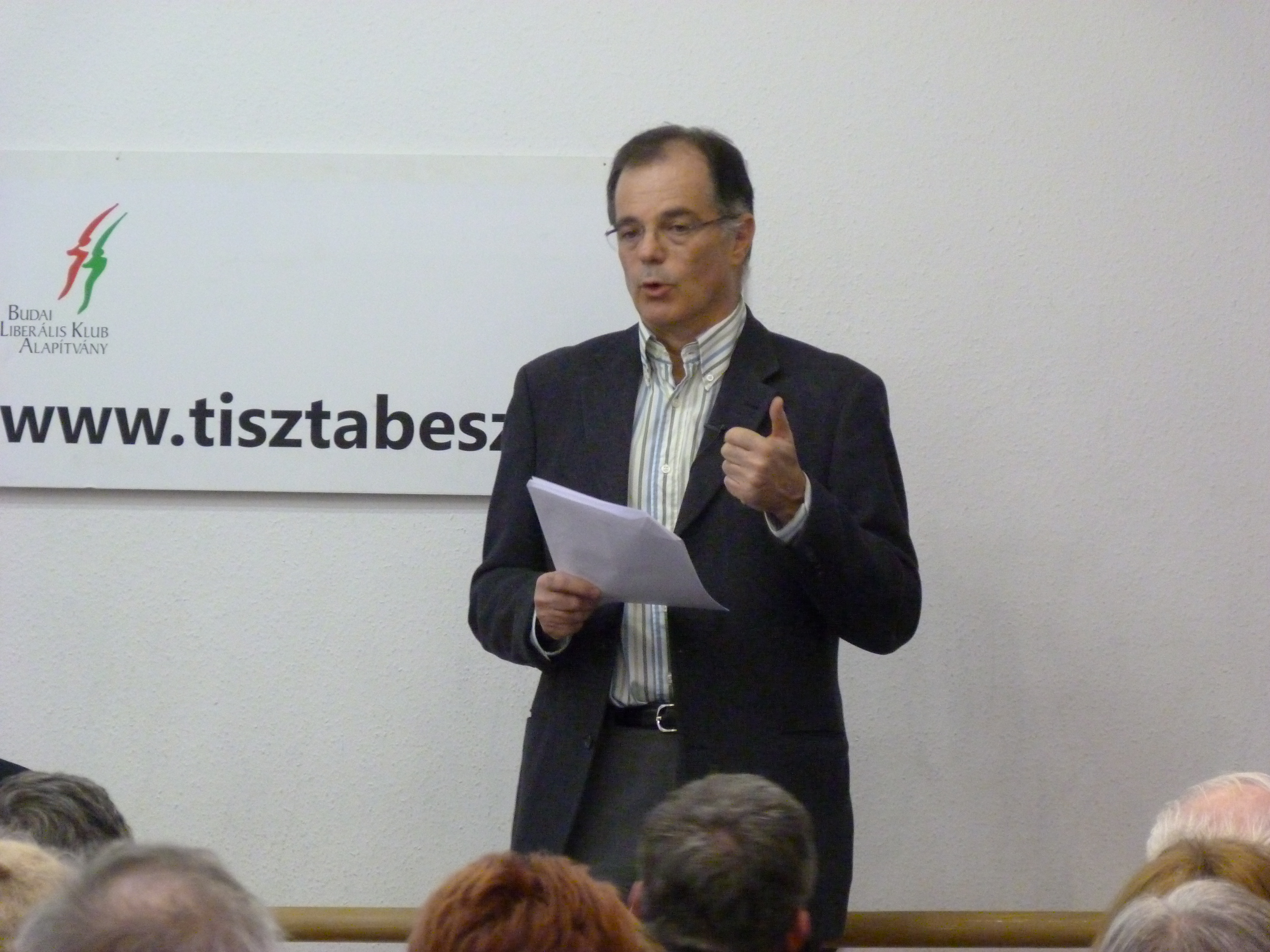 Live on the 4th of March, 2013. Budapest, the Budai Liberális Klub (Buda Liberal Club). Simor András, President of the Magyar Nemzeti Bank (Hungarian National Bank) on the 3rd of March, 2013 (Sunday) finished his 6 years term as president. Next day - in the Buda Liberal Club - he summerised his 6 years period as the leader of the Bank. A felvételek 2013. Március 4 –én, hétfőn készültek Budapesten, a Budai Liberális Klubban (Budapest II. Margit krt. 48 szám, I. emelet). Simor András közgazgász 2013. Március 3 –ig volt a Magyar Nemzeti Bank elnöke. 6 éves megbizatását követően a Liberális Klubban számolt be elnöksége tapasztalairól. Az előadáson jelen volt Kuncze Gábor is valamint más volt SZDSZ-es politikusok is. Források: Elgondolkoztam, hogy végig bírom-e csinálni - interjú Simor Andrással Bogár László megnevezte Matolcsy legfontosabb feladatait